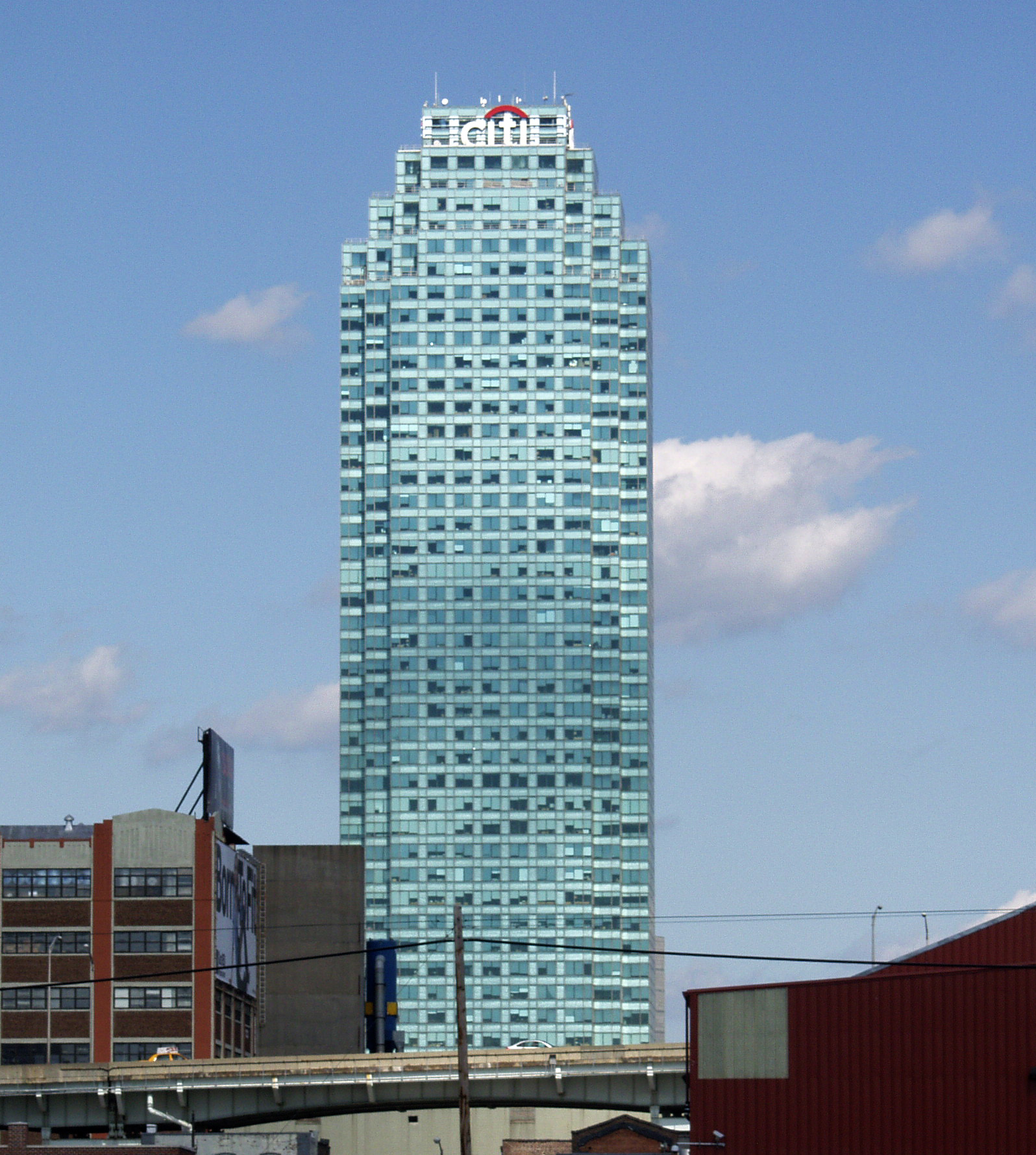 Looking north across Newtown Creek from a few yards below the left bank of Whale Creek on a sunny midday. "Skyscraper with back office of a [Citi]bank whose front office is across a river."— "Back office" on English Wikipedia